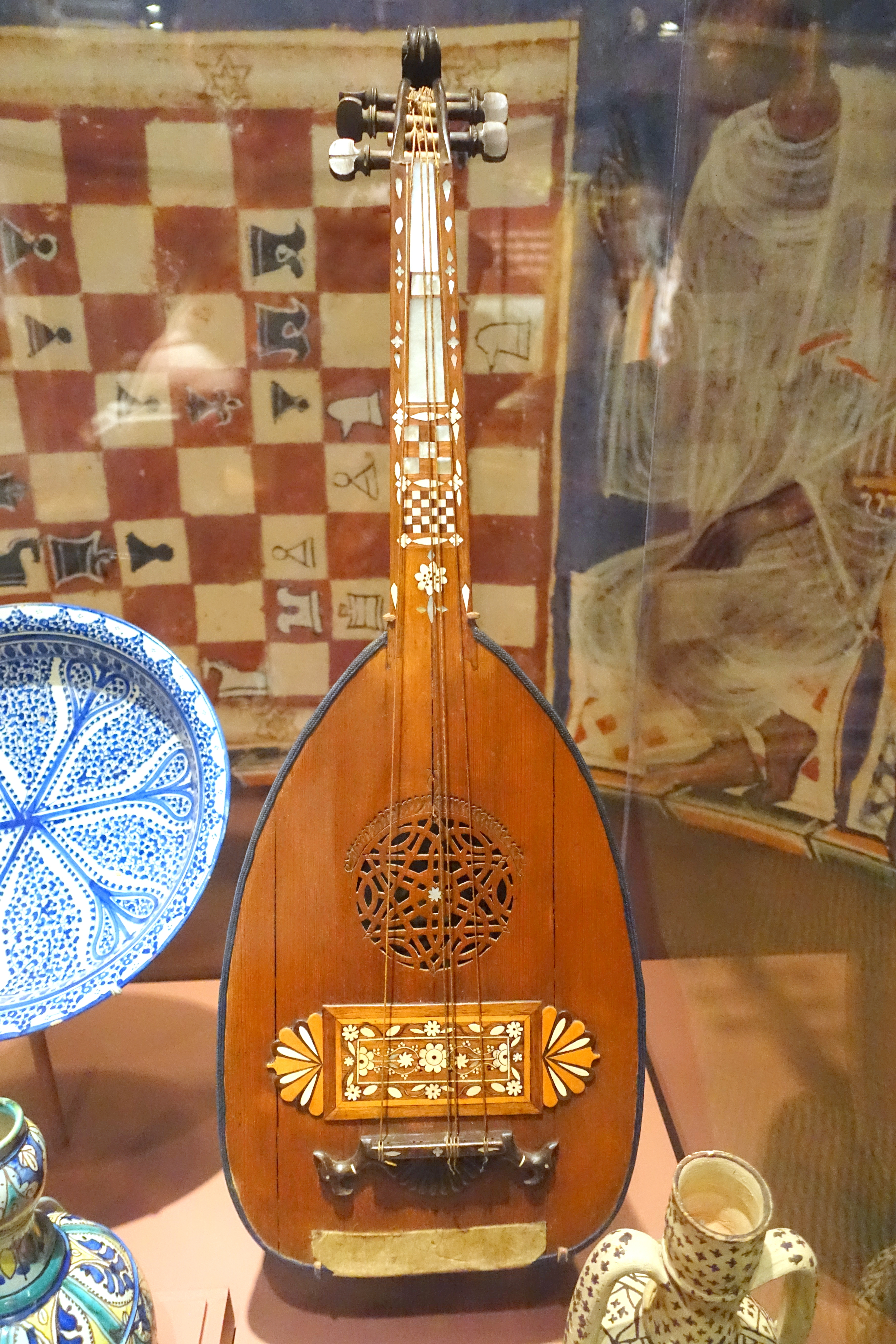 Exhibit in the National Museum of Natural History, Washington, DC, USA. This artwork is in the public domain because the artist died more than 70 years ago.